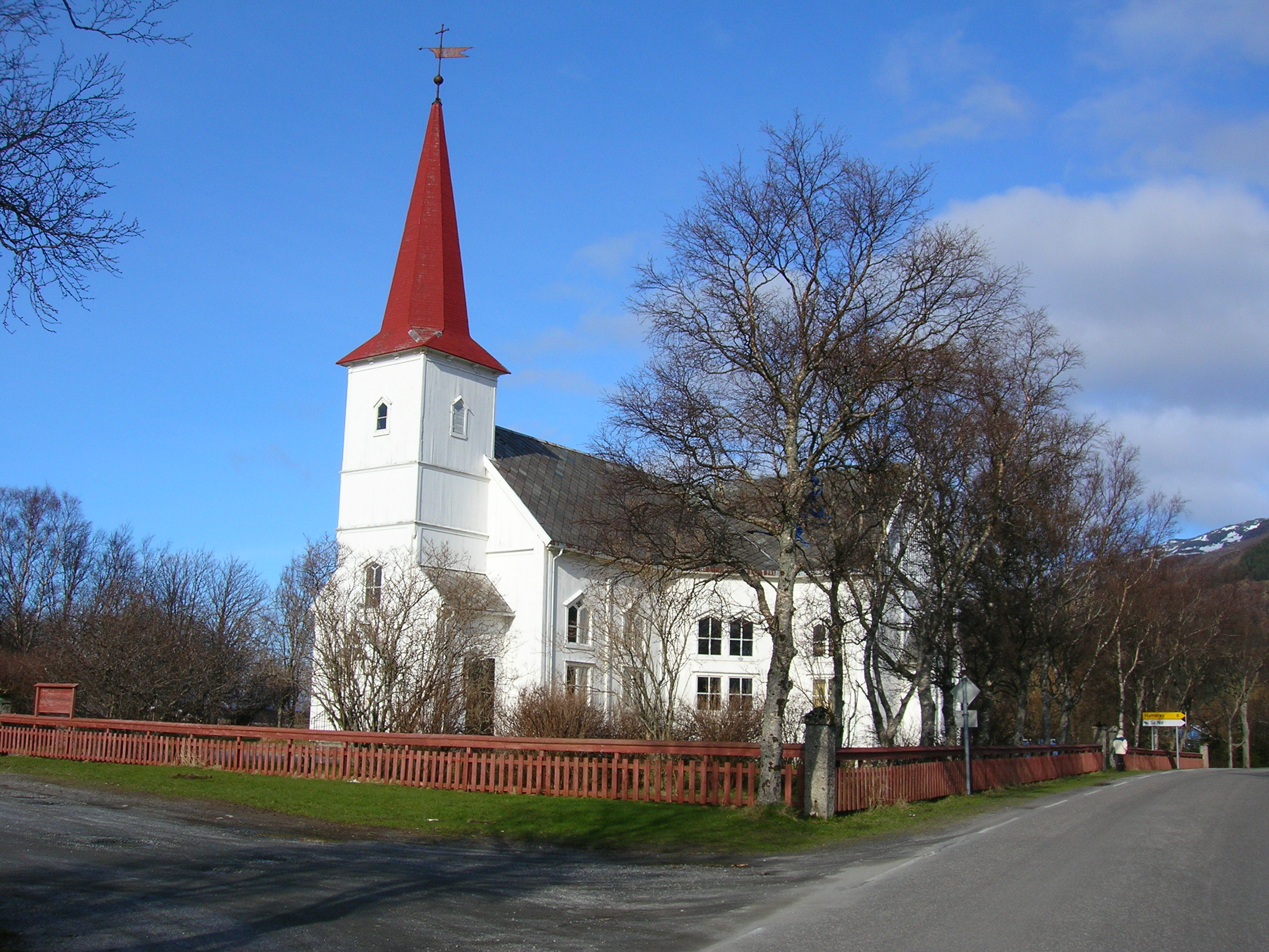 Nesna church, Photo April 29, 2007 with a Nikon Coolpix 5600 5,1 Megapixel camera.